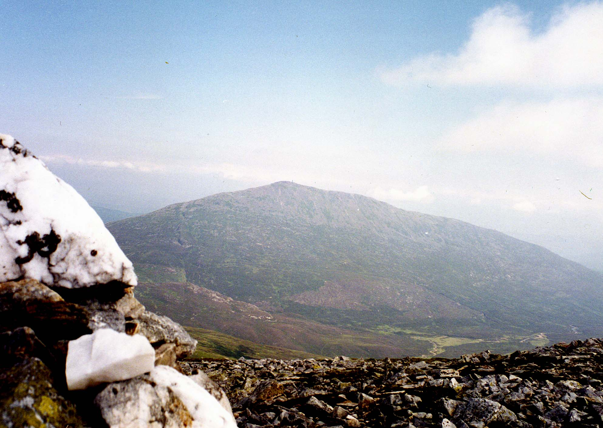 Personal picture taken by Mick Knapton